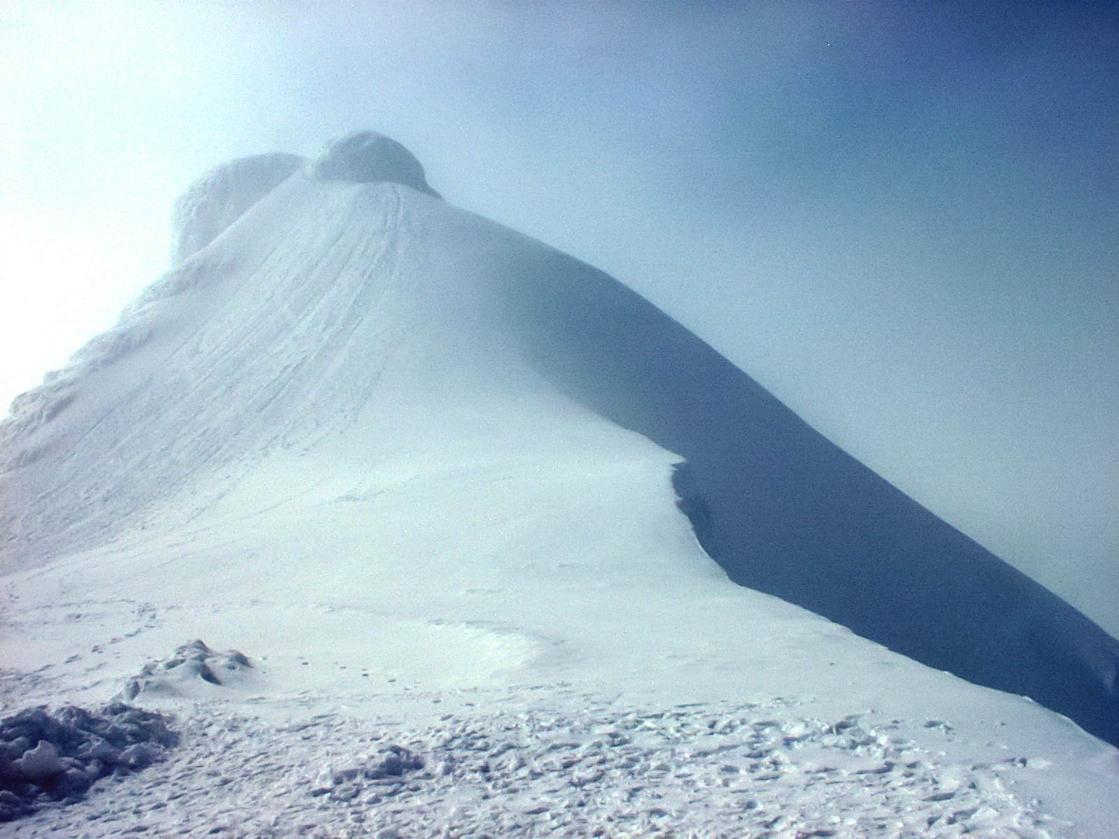 Snaefellsnes-Snaefellsjökull-Summit in Iceland